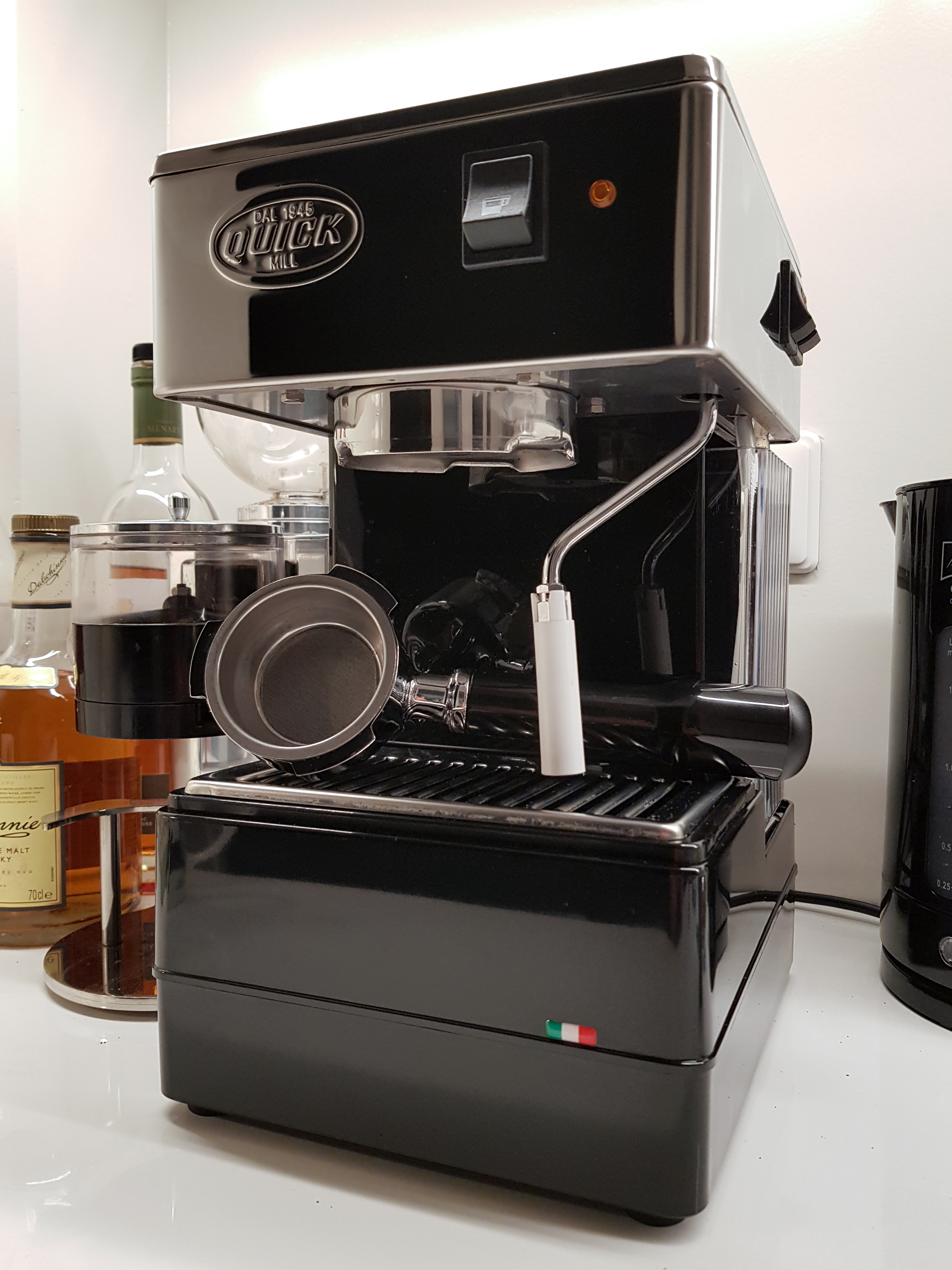 Quick Mill 0820 espresso machine